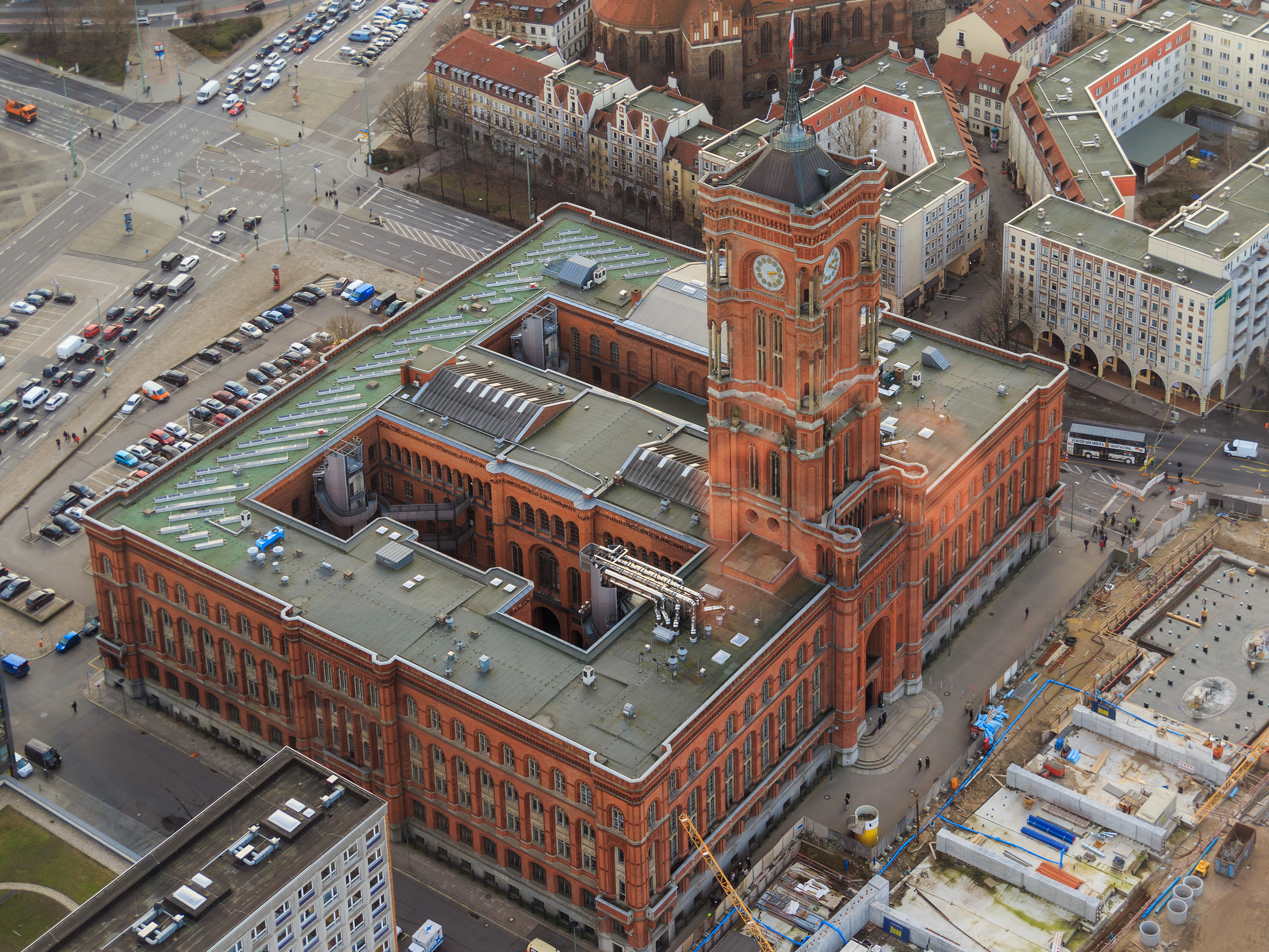 View from Berlin TV Tower on the Red Townhall